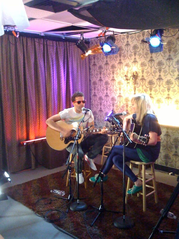 Ting Tings in Studio